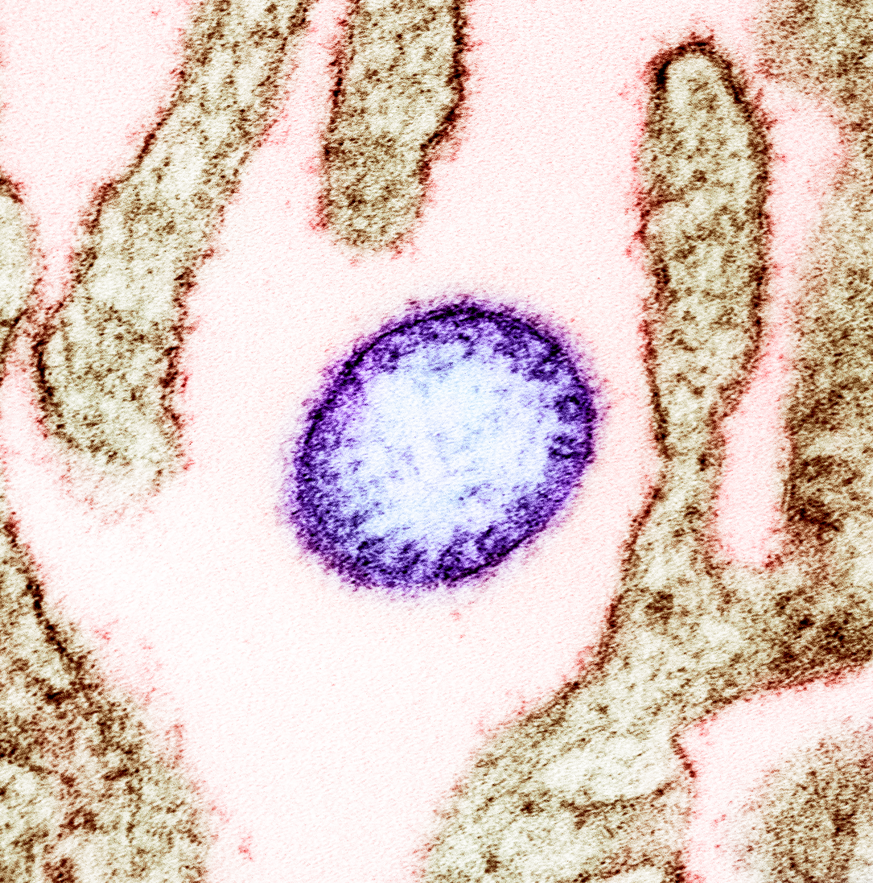 Colorized transmission electron micrograph of a mature extracellular Nipah Virus particle (purple) near the periphery of an infected VERO cell (brown). Image captured and color-enhanced at the NIAID Integrated Research Facility in Fort Detrick, Maryland. Credit: NIAID